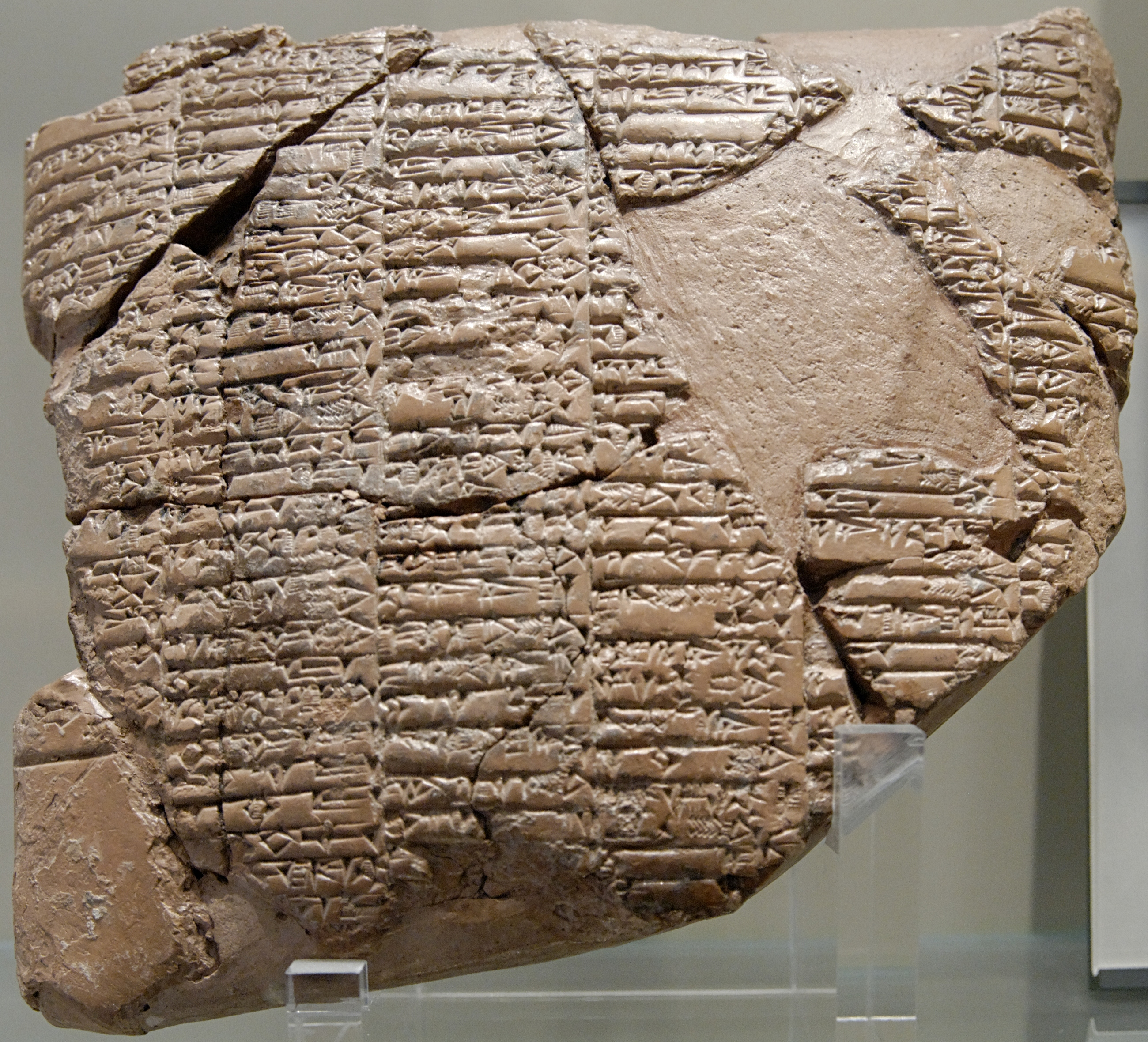 Treaty of alliance concluded between Naram-Sin of Akkad and Khita (?), a prince of Awan; Elamite language written in Akkadian script. Clay, ca. 2250 BC. From Susa, Iran.